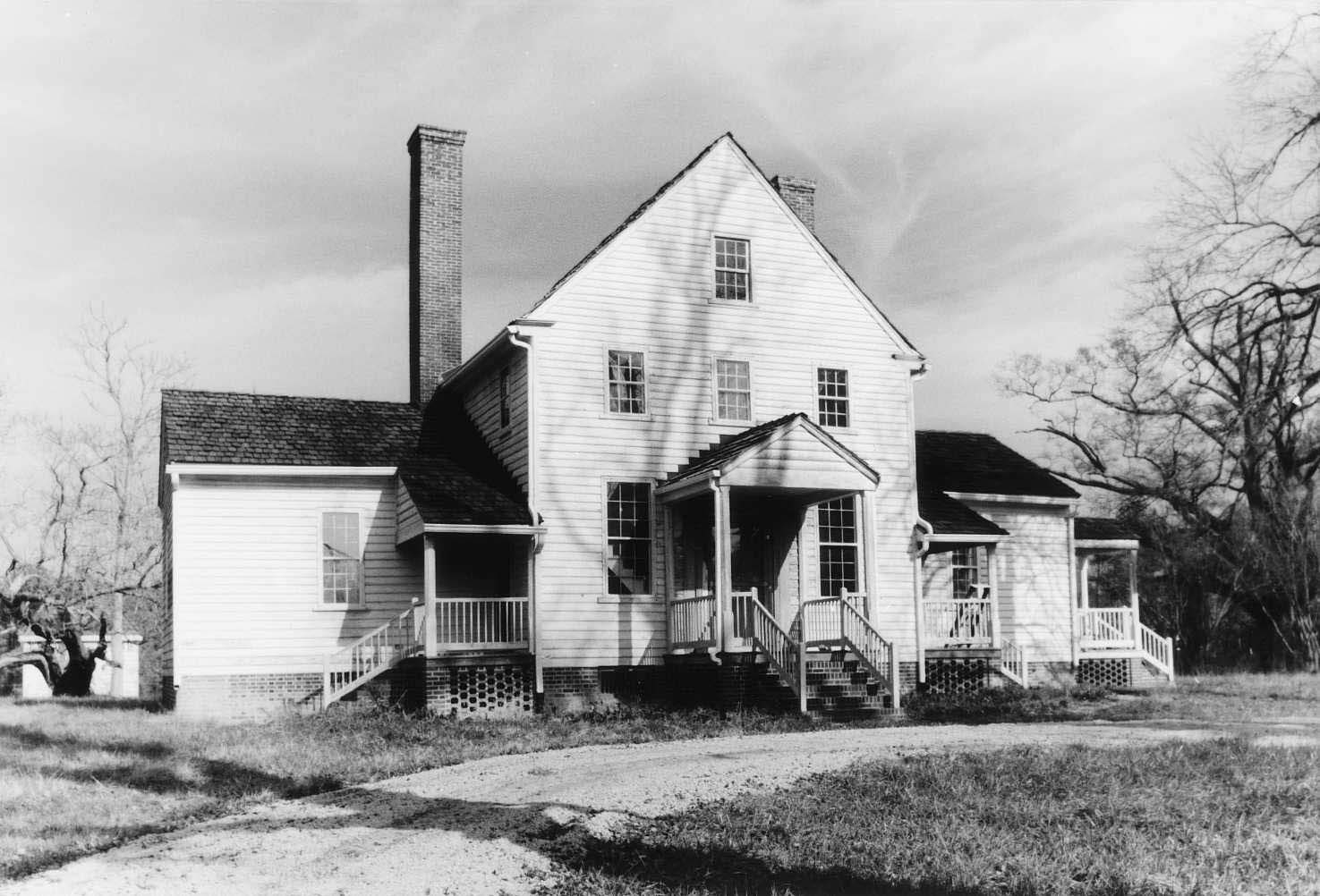 Home of President John Tyler